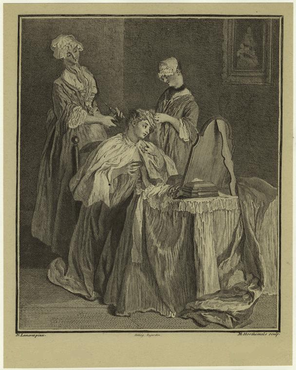 Engraving of woman having her hair styled